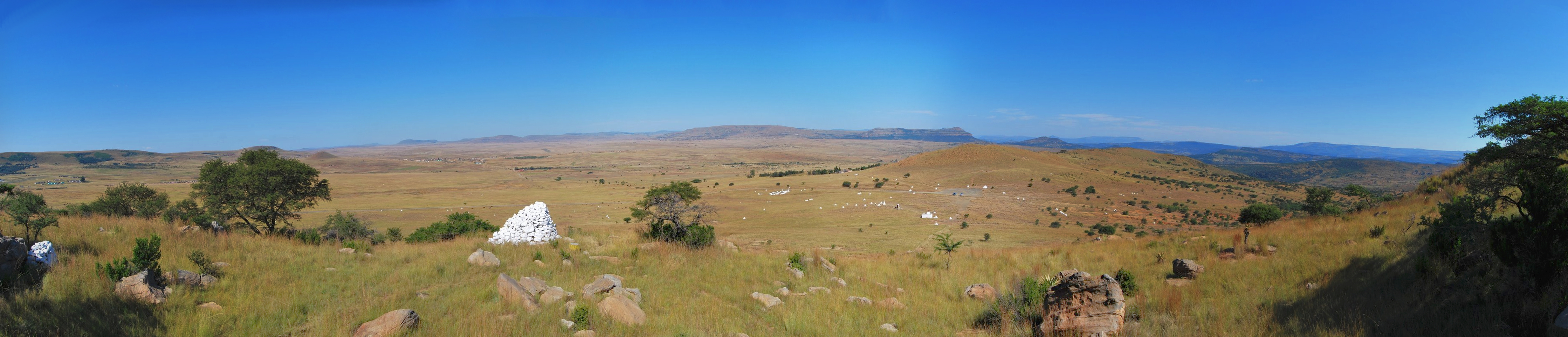 This a panoramic photo of the Isandlwana Battlefield taken from the Isandlwana hill This image was created with Hugin